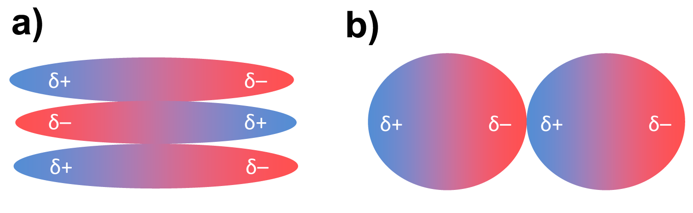 Dipole interactions. Example of DLF